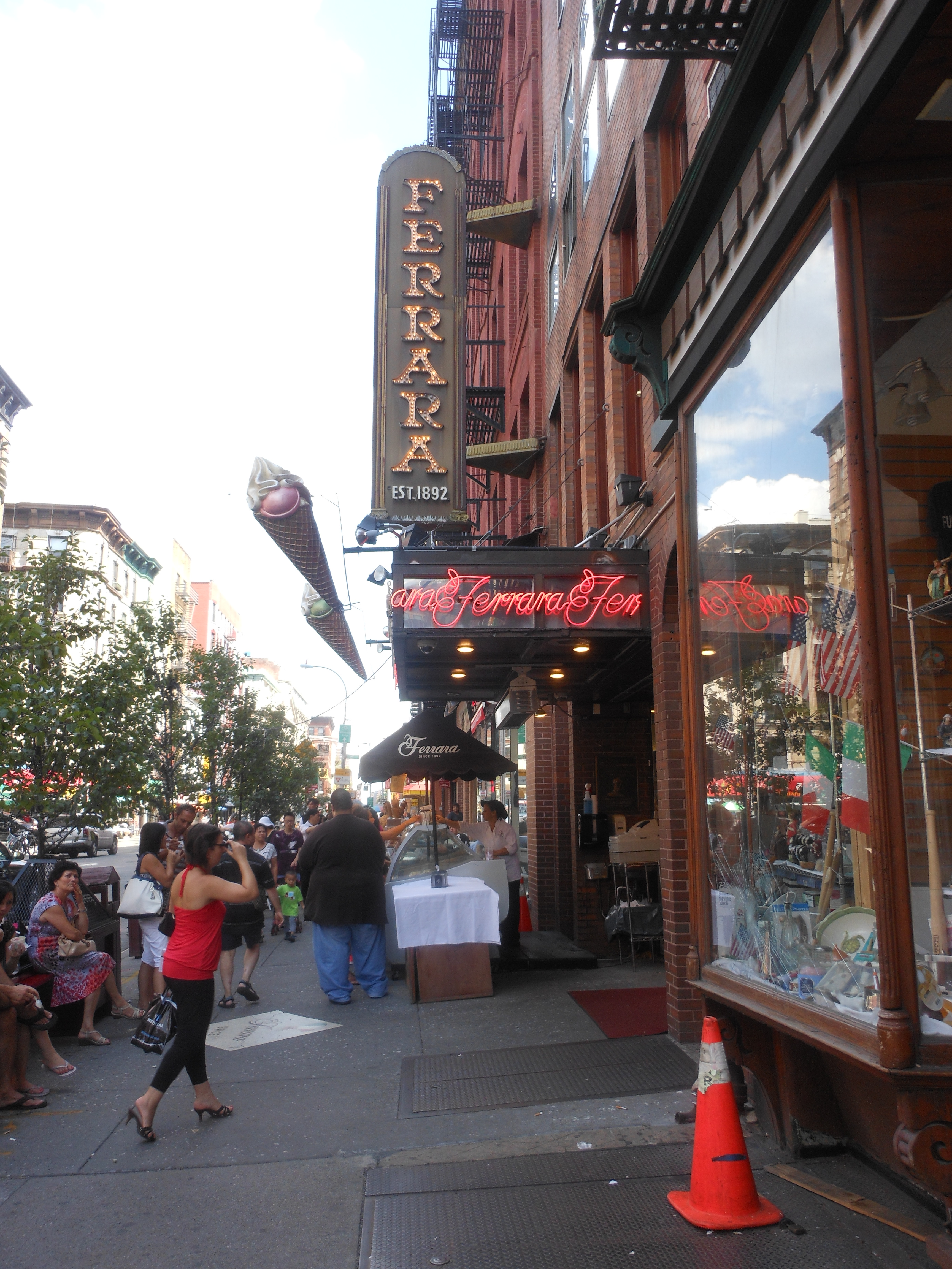 Ferrara Cafe in historic Little Italy, Manhattan, New York City.